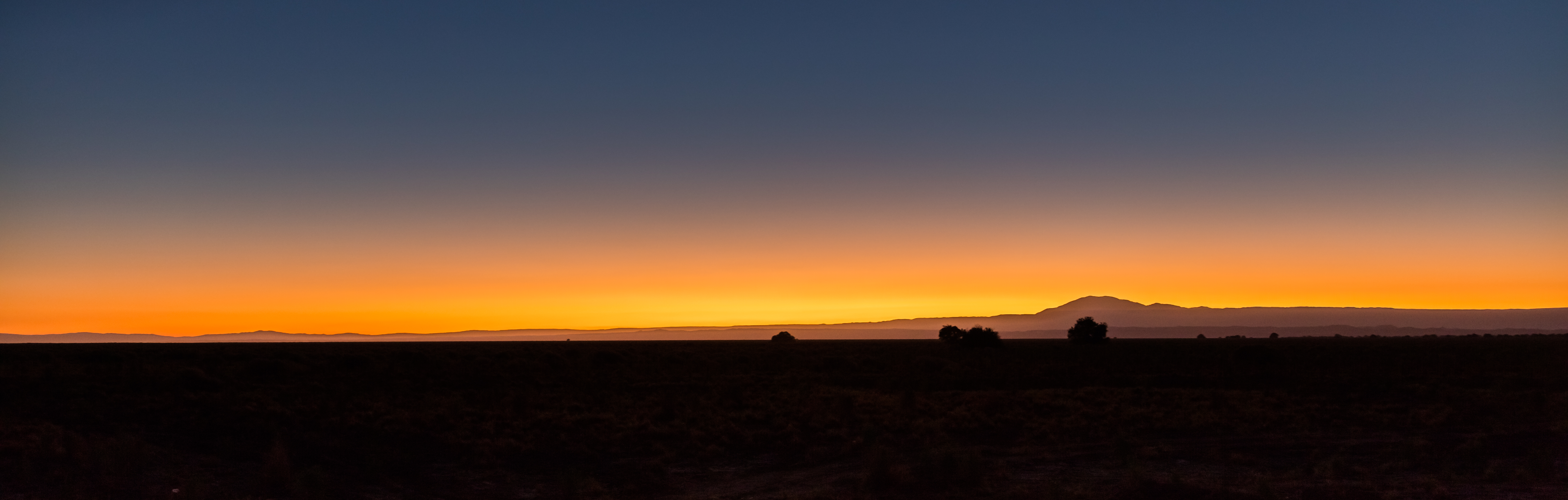 Sunset in Atacama, Chile